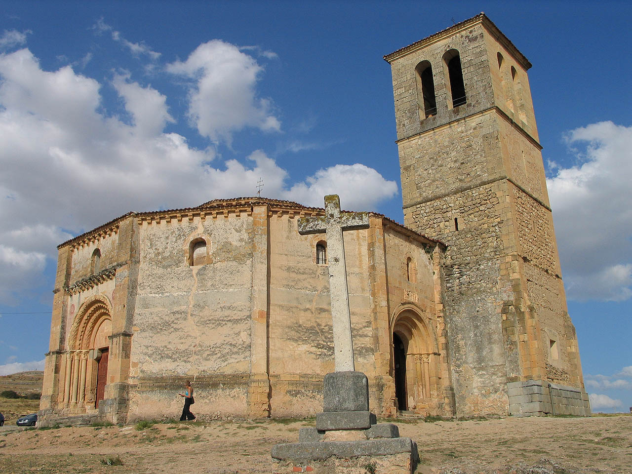 Templar church of the True Cross (Segovia, Spain)